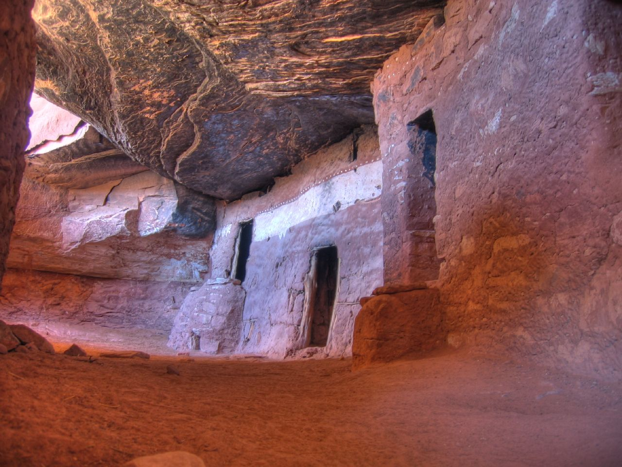 Amazing masonry and jacal structure at Moon House in Utah